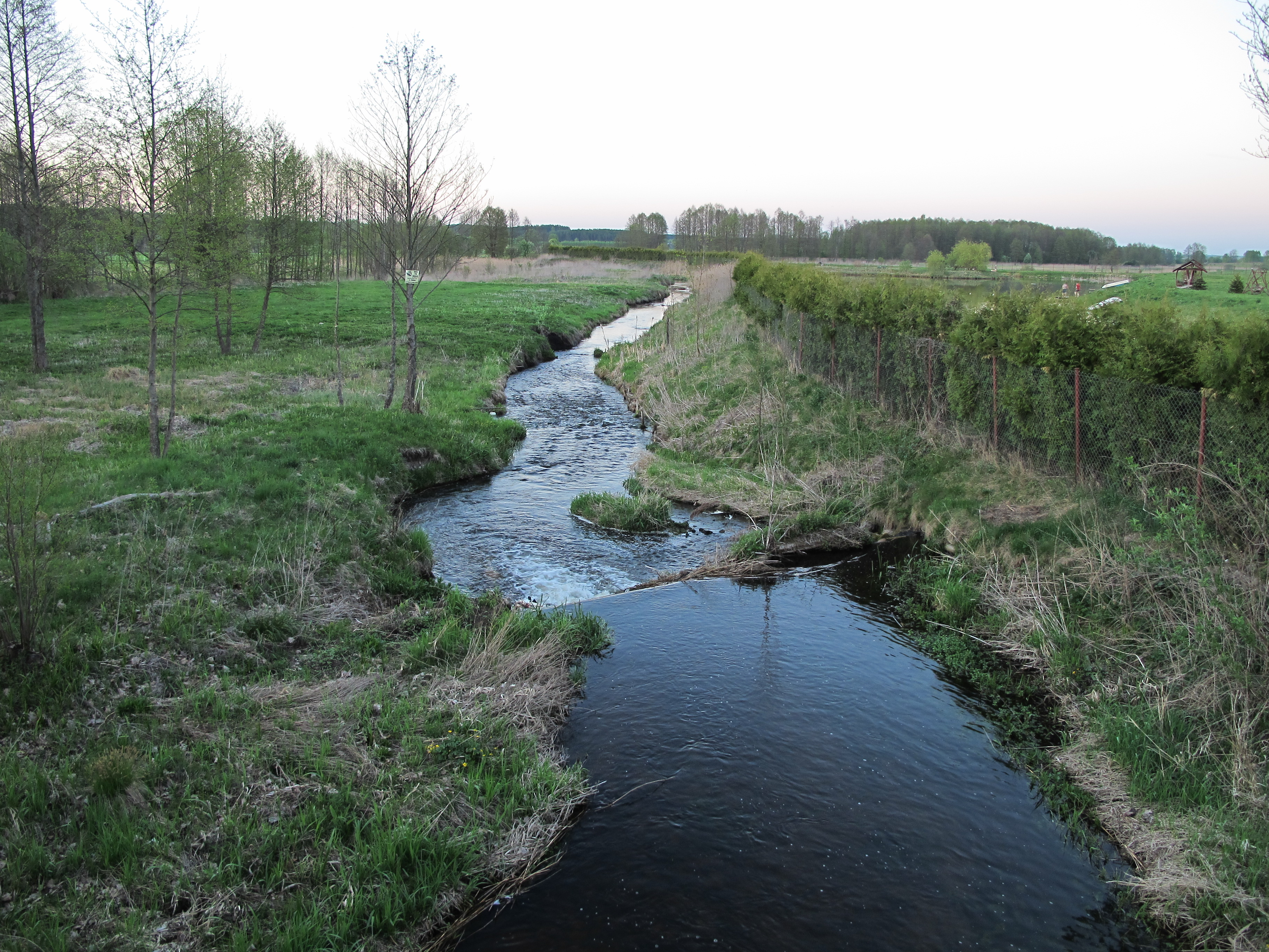 Nietupa river (Svislach tributary) near Trejgle village, gmina Krynki, podlaskie, Poland